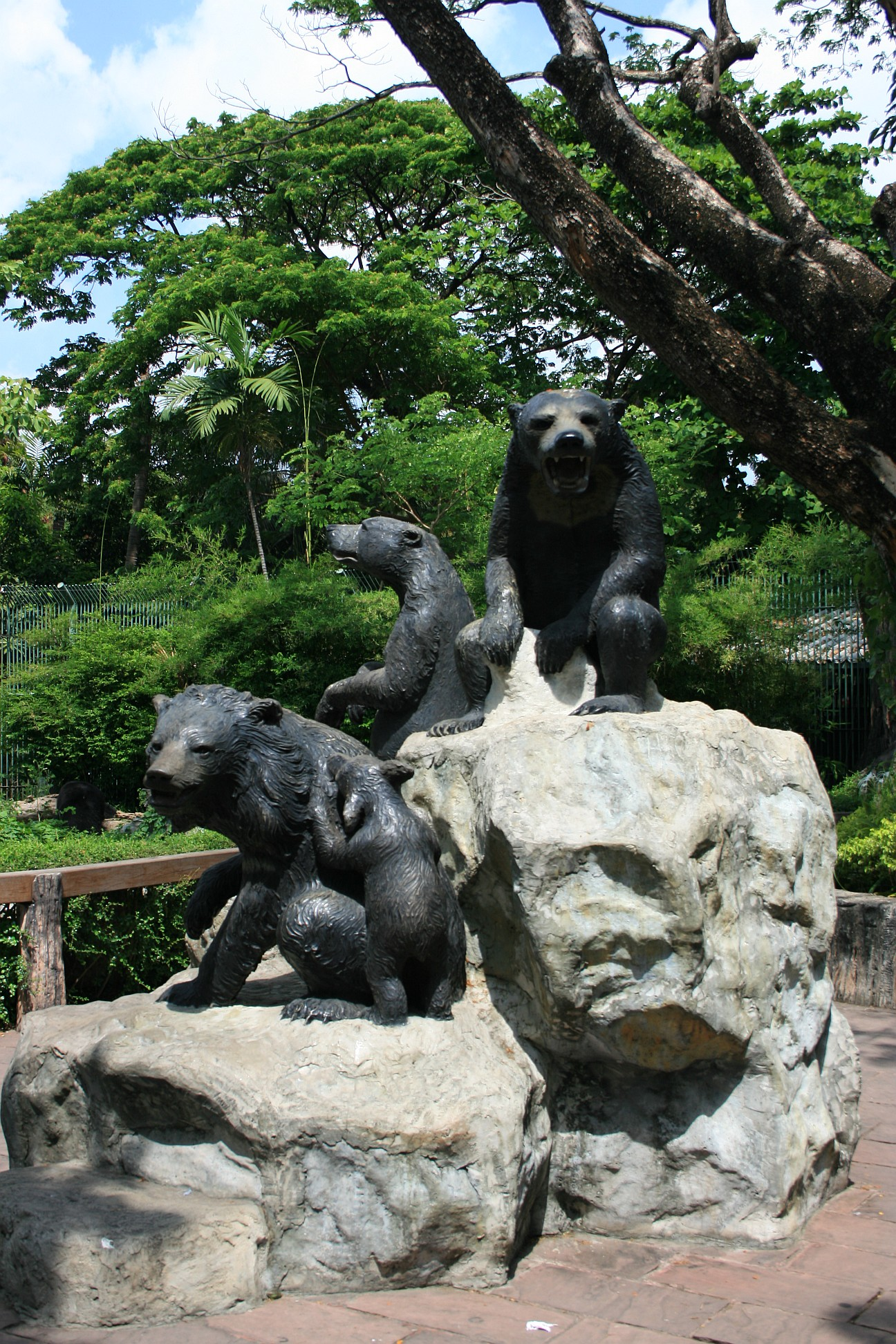 Statue of bears within Dusit Zoo